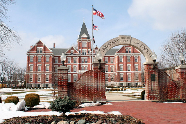 Old Main, The University of Findlay, at Findlay, Ohio, United States.